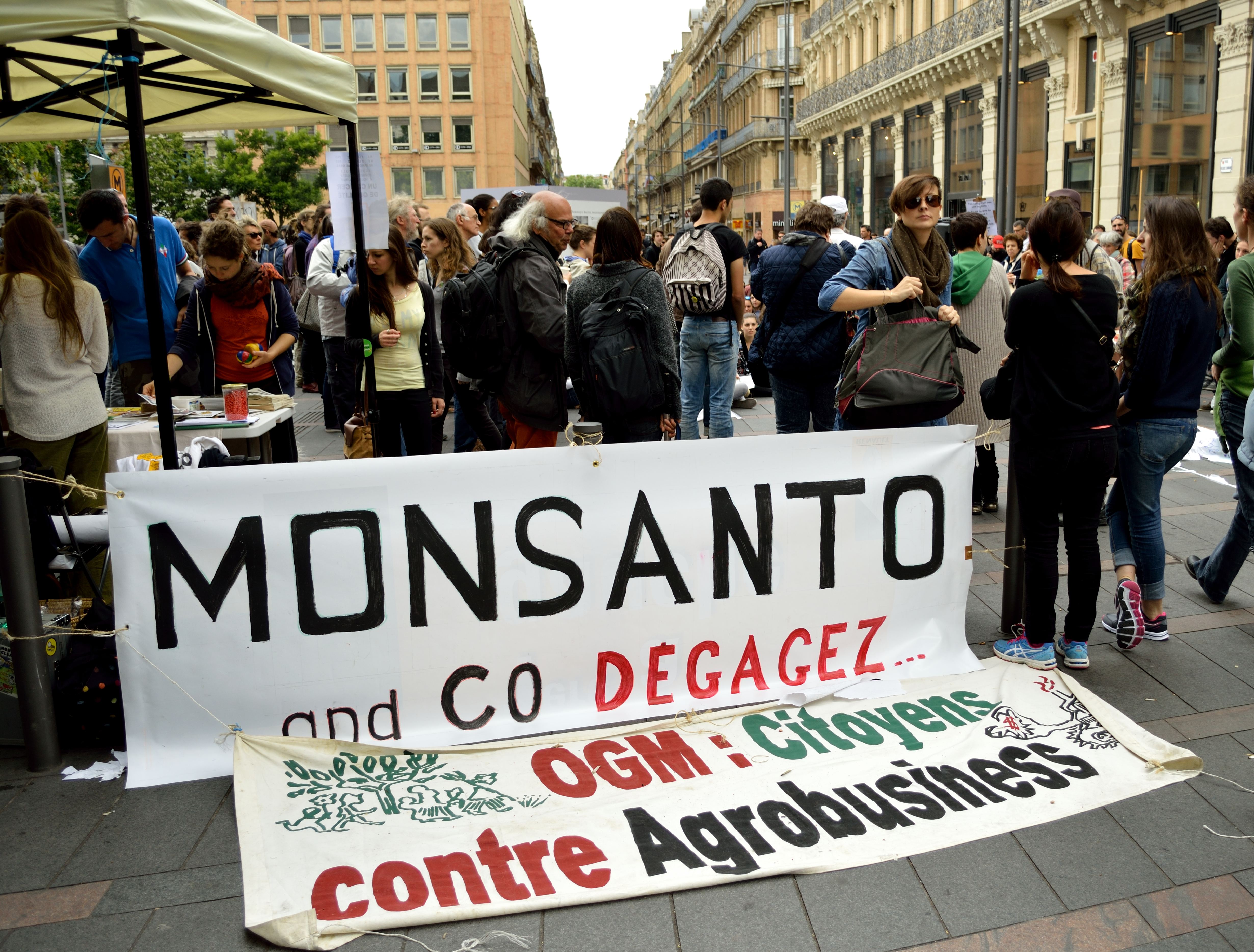 Toulousian rally against Monsanto.